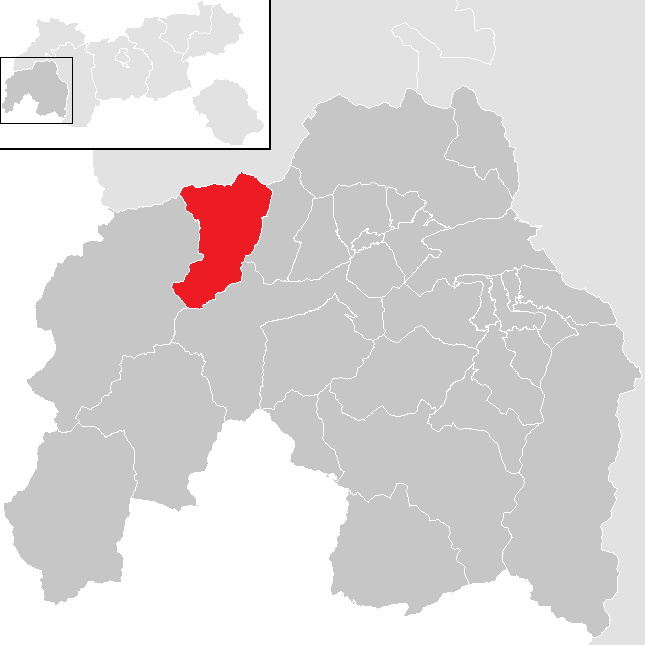 District Landeck